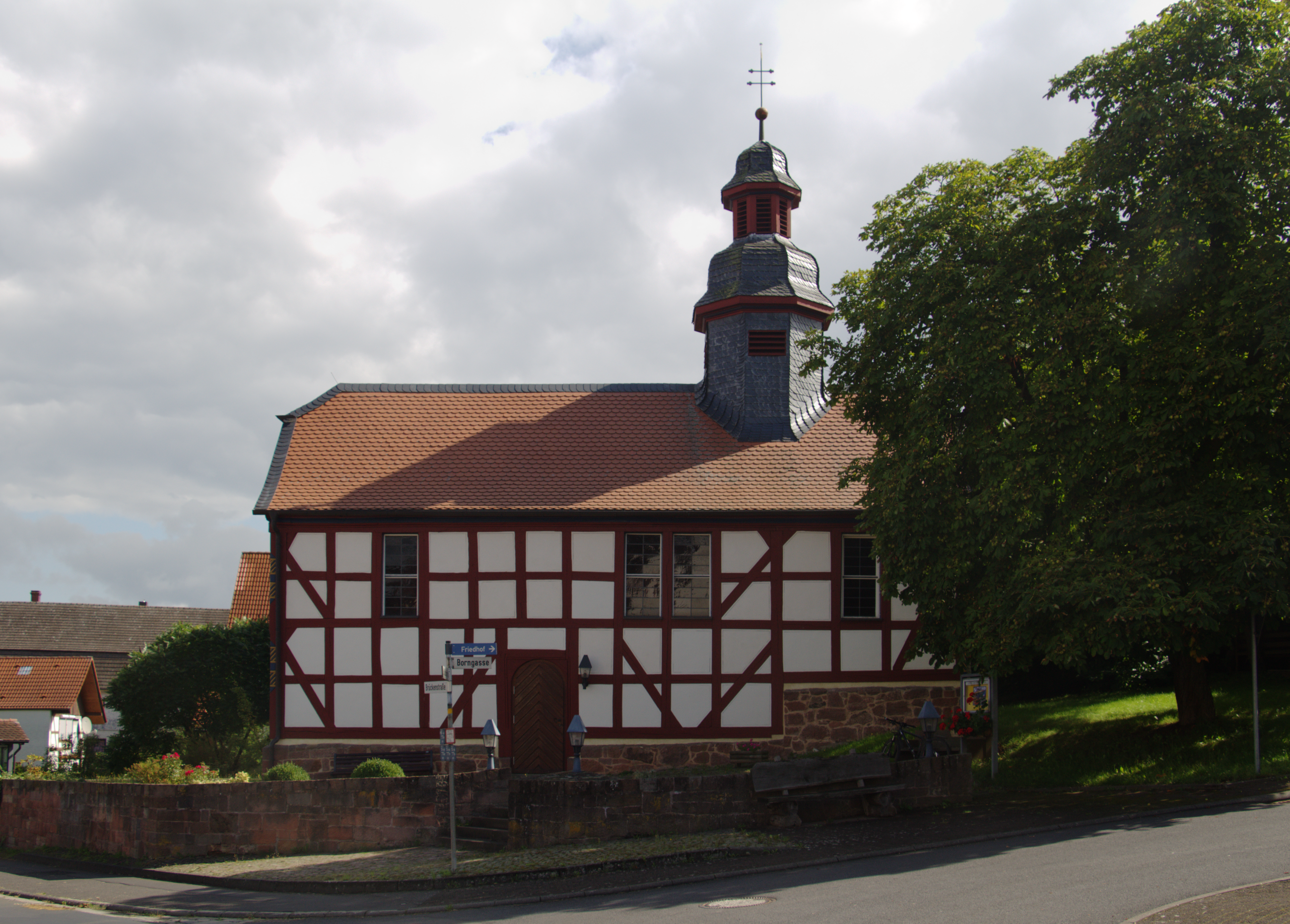 Half-timbered Church in Uetzhausen, Schlitz, Vogelsberg, Hesse, Germany.